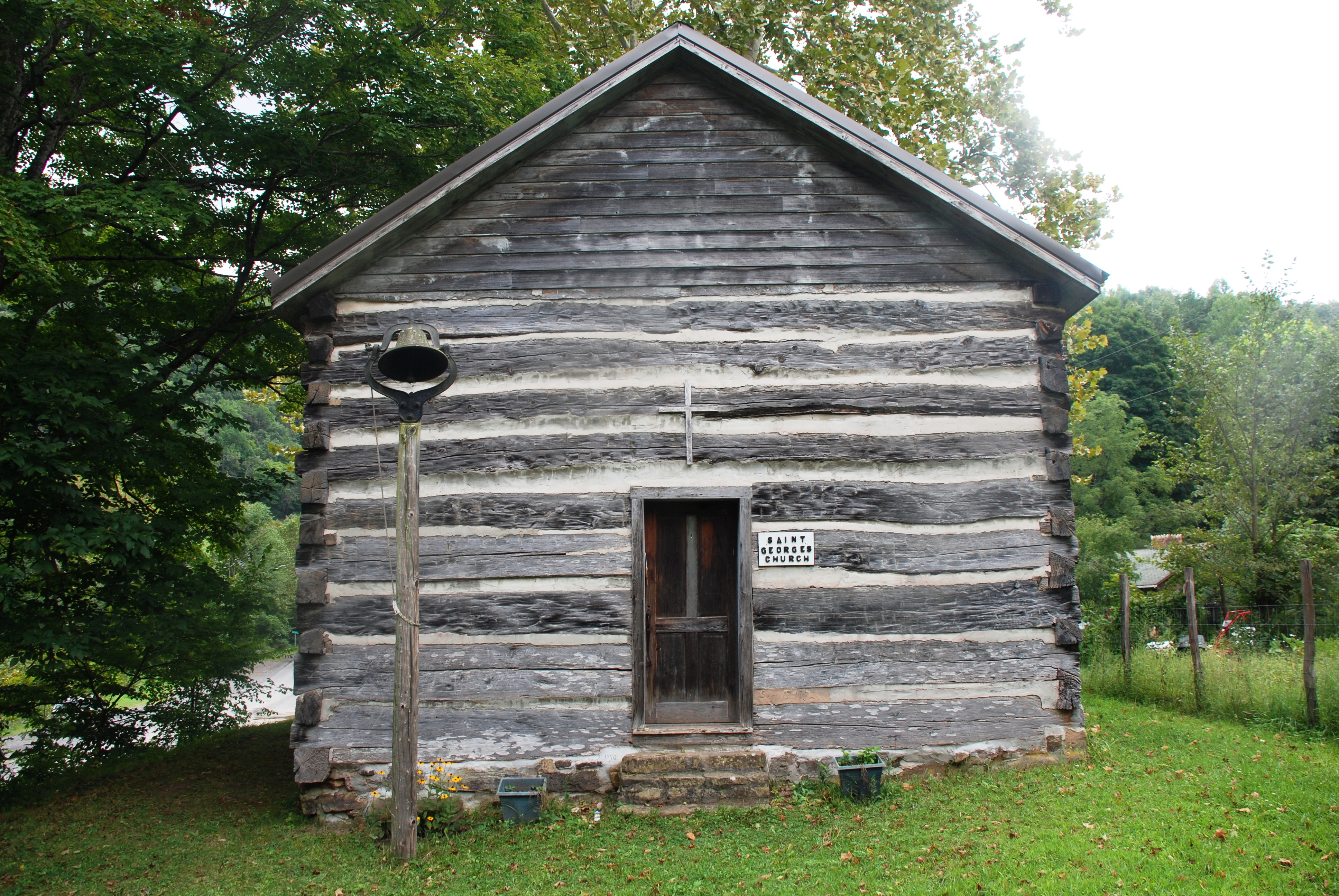 St. George’s Church in Smoke Hole Canyon. Built about 1850 as Methodist Episcopal Meeting House and Known as Palestine Church. Bought by Episcopal Church in 1931.